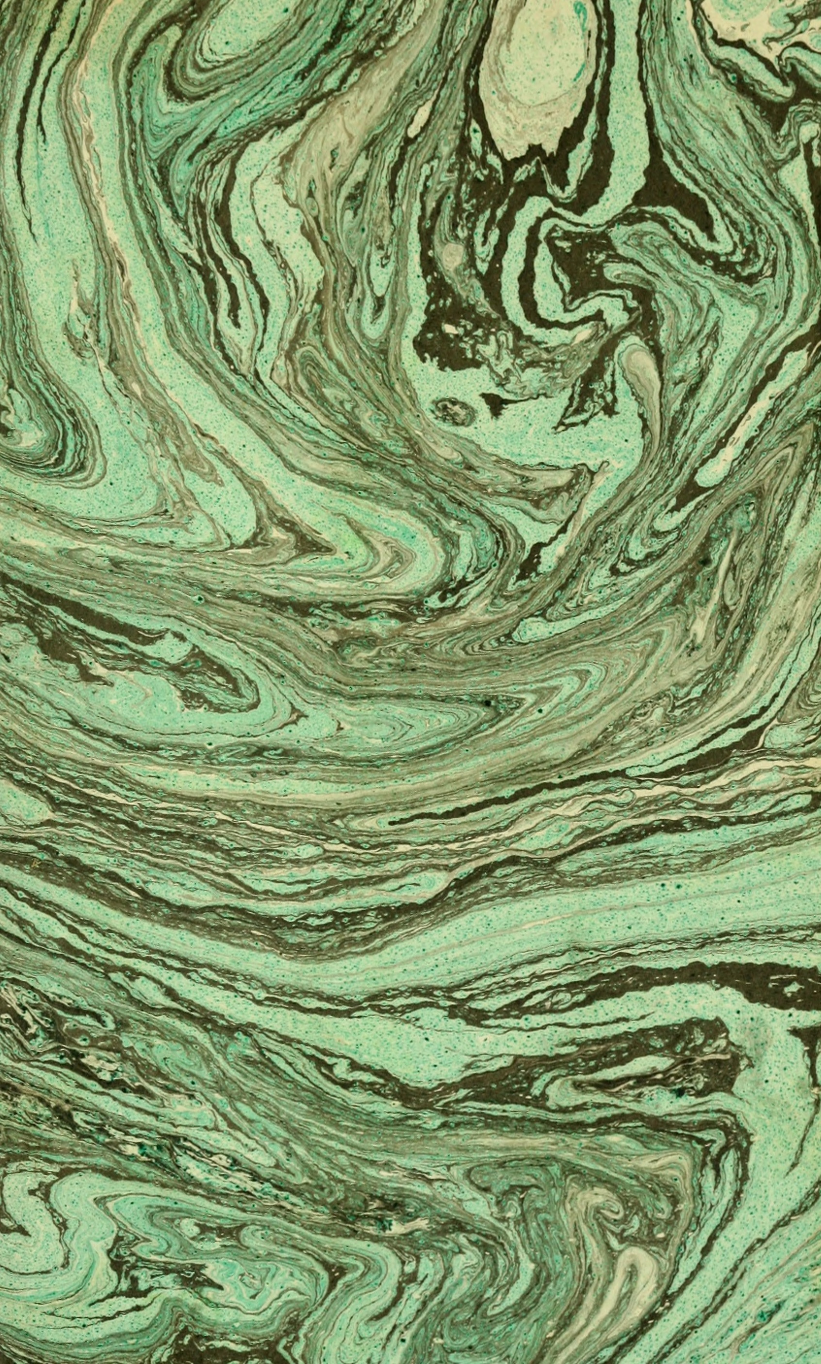 Title: Recebimiento qve hizo la mvy noble y muy leal ciudad de Seuilla Year: 1570 (1570s) Authors: Mal Lara, Juan de, 1524-1571 Subjects: Philip II, King of Spain, 1527-1598 Publisher: Seville : Alonso Escriuano Text Appearing Before Image: ' Text Appearing After Image: M